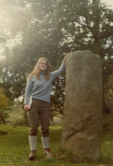 Roman milestone at Codley Gate (Henshaw) The milestone stands by the side of the Stanegate Roman road. It is cylindrical in shape and stands 1.7m tall.